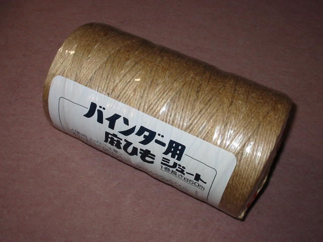 Twine for a binder, made of jute.